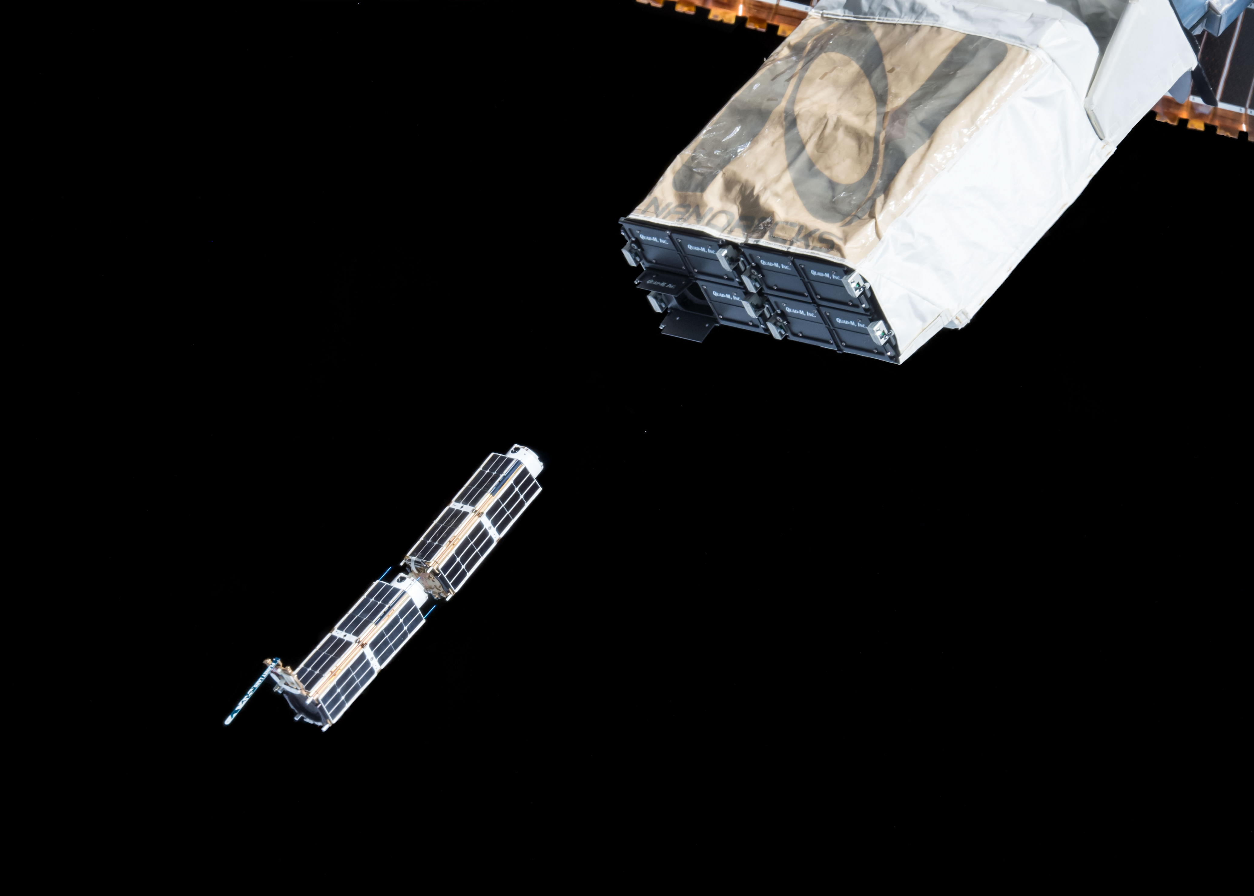 On Feb. 27 2015, a series of CubeSats, small experimental satellites, were deployed via a special device mounted on the Japanese Experiment Module (JEM) Remote Manipulator System (JEMRMS). Deployed satellites included twelve Dove sats, one TechEdSat-4, one GEARRSat, one LambdaSat, one MicroMas. These satellites perform a variety of functions from capturing new Earth imagery, to using microwave scanners to create 3D images of hurricanes, to even developing new methods for returning science samples back to Earth from space. The small satellites were deployed through the first week in March.